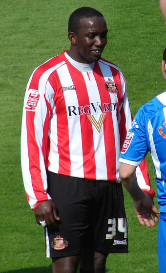 Sunderland A.F.C. striker Dwight Yorke at Layer Road – 21 April 2007.